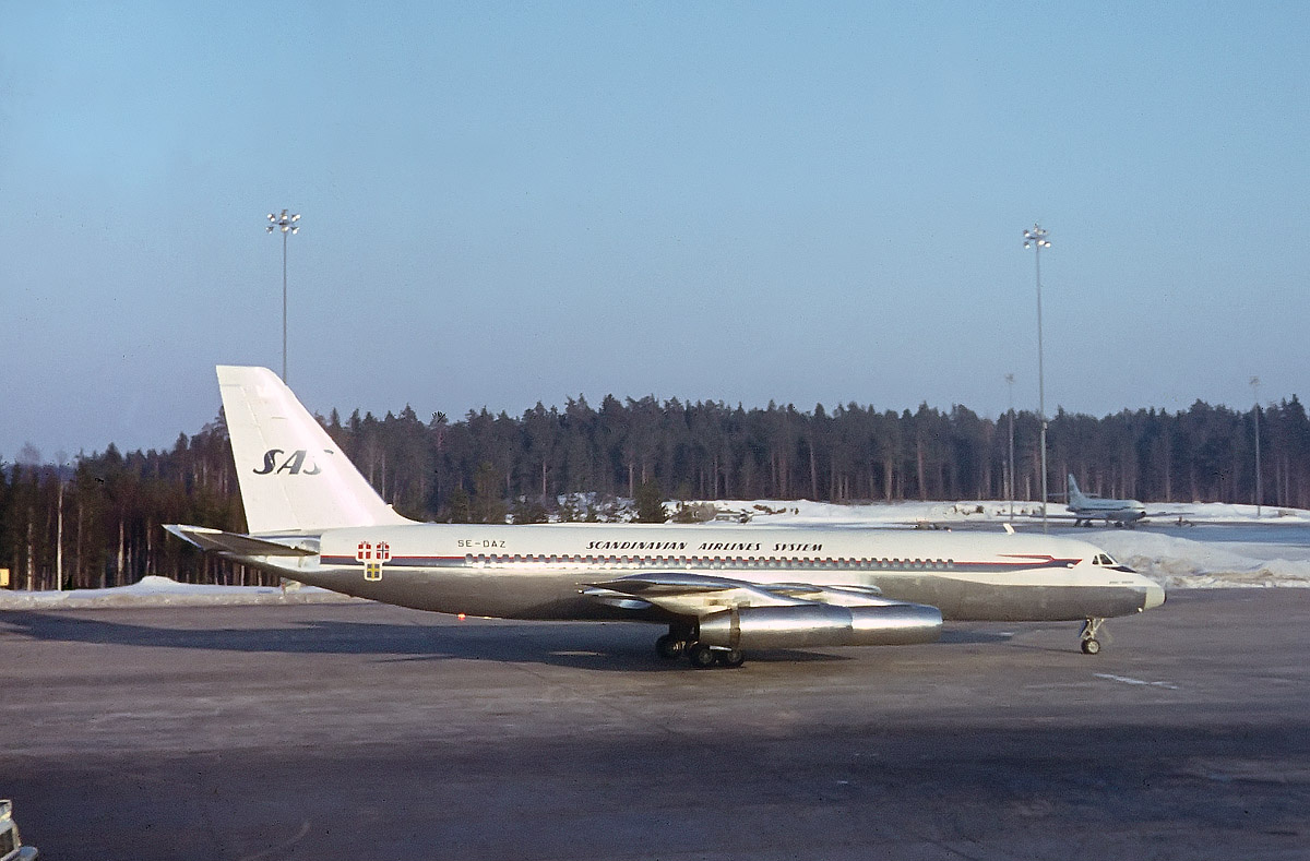 Scandinavian Airlines System (SAS) Convair 990A (30A-6) SE-DAZ Ring Viking (leased from Swissair) at Stockholm-Arlanda Airport